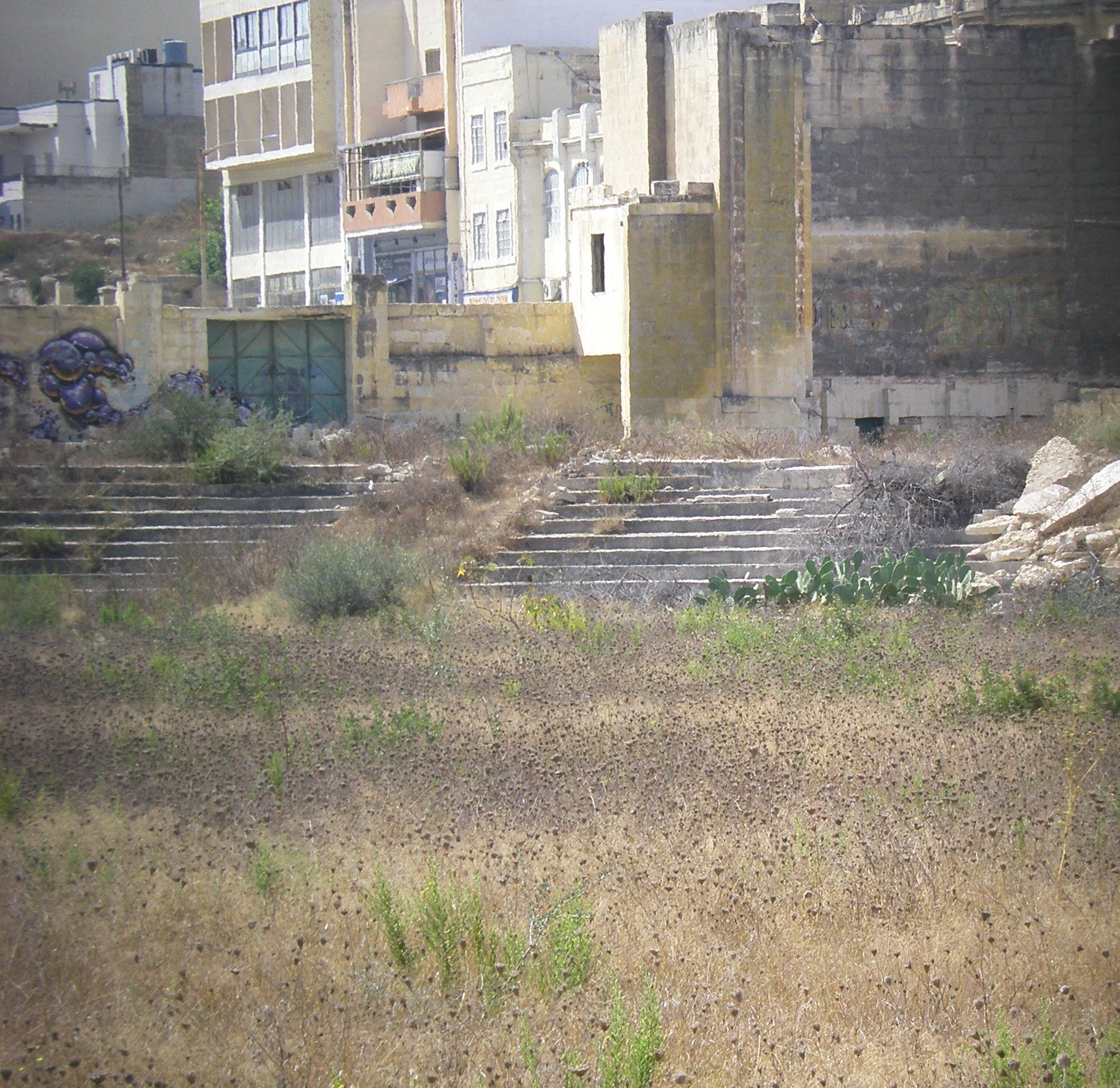 Inside the former Empire Stadium in Gzira, Malta